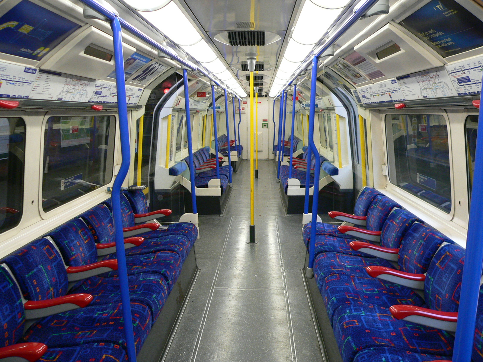 The interior of a London Underground 1973 tube stock Piccadilly Line train at Rayners Lane station on 24 October 2005.